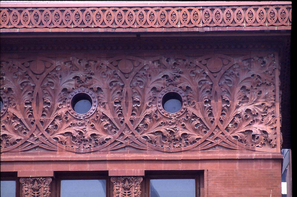 Details from Louis Sullivan's Wainwright Building In St. Louis, Missouri, USA